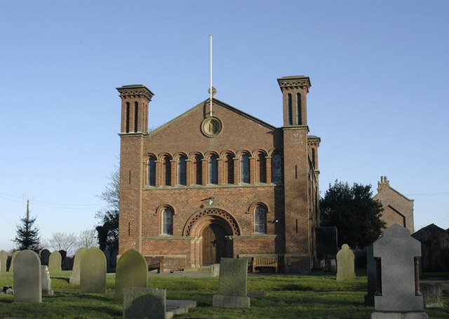 St John's parish church, Crook Gate Lane, Out Rawcliffe, Lancashire, seen from the west